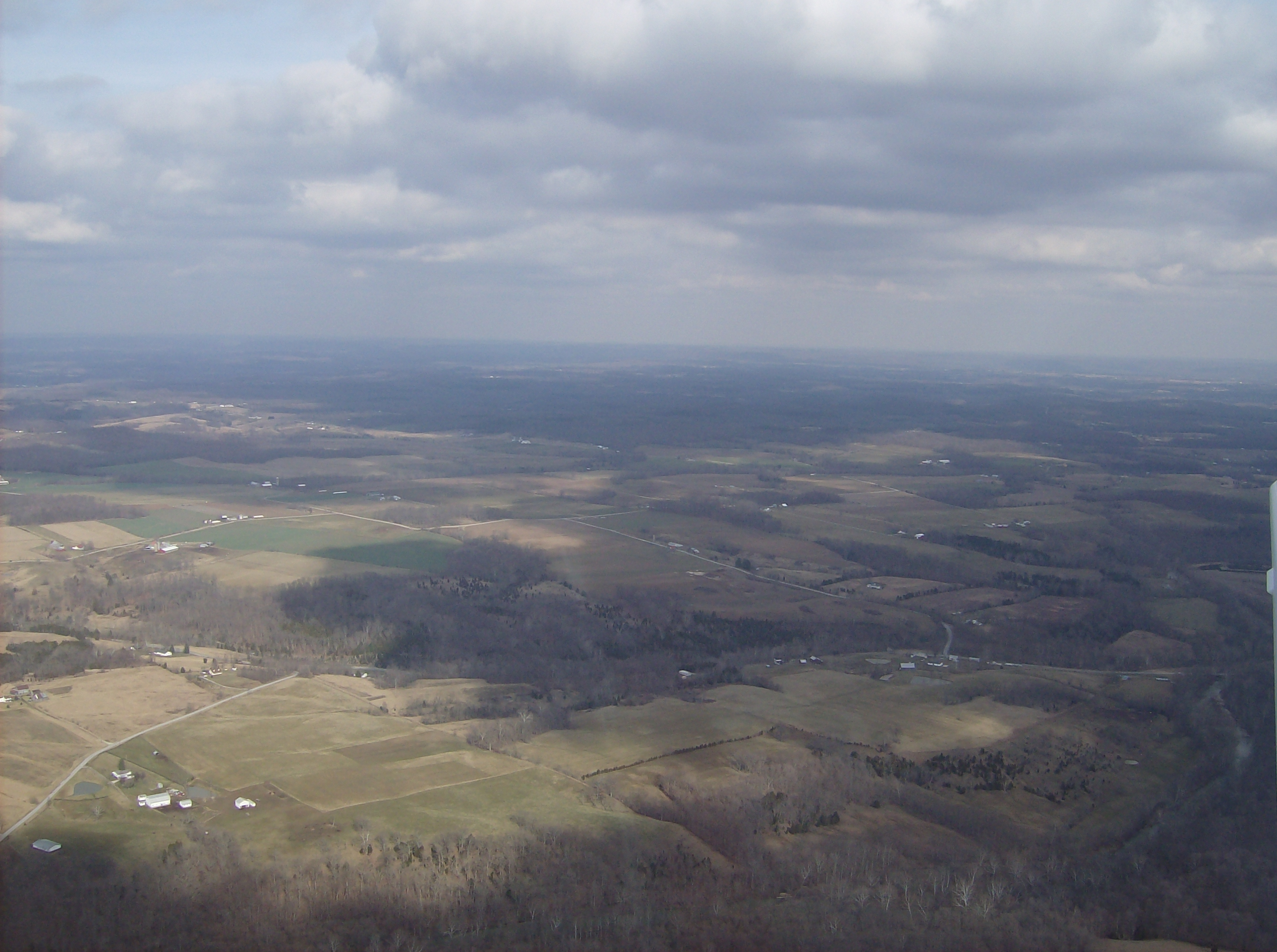 Countryside in western Scott Township, Adams County, Ohio, United States. Intersection on right side of picture is State Route 247 with Armstrong Road, with a bridge over the West Fork of Ohio Brush Creek on the far right side of the picture. Picture taken from a Diamond Eclipse light airplane at an altitude of 2,400 feet MSL and a bearing of approximately 111º.